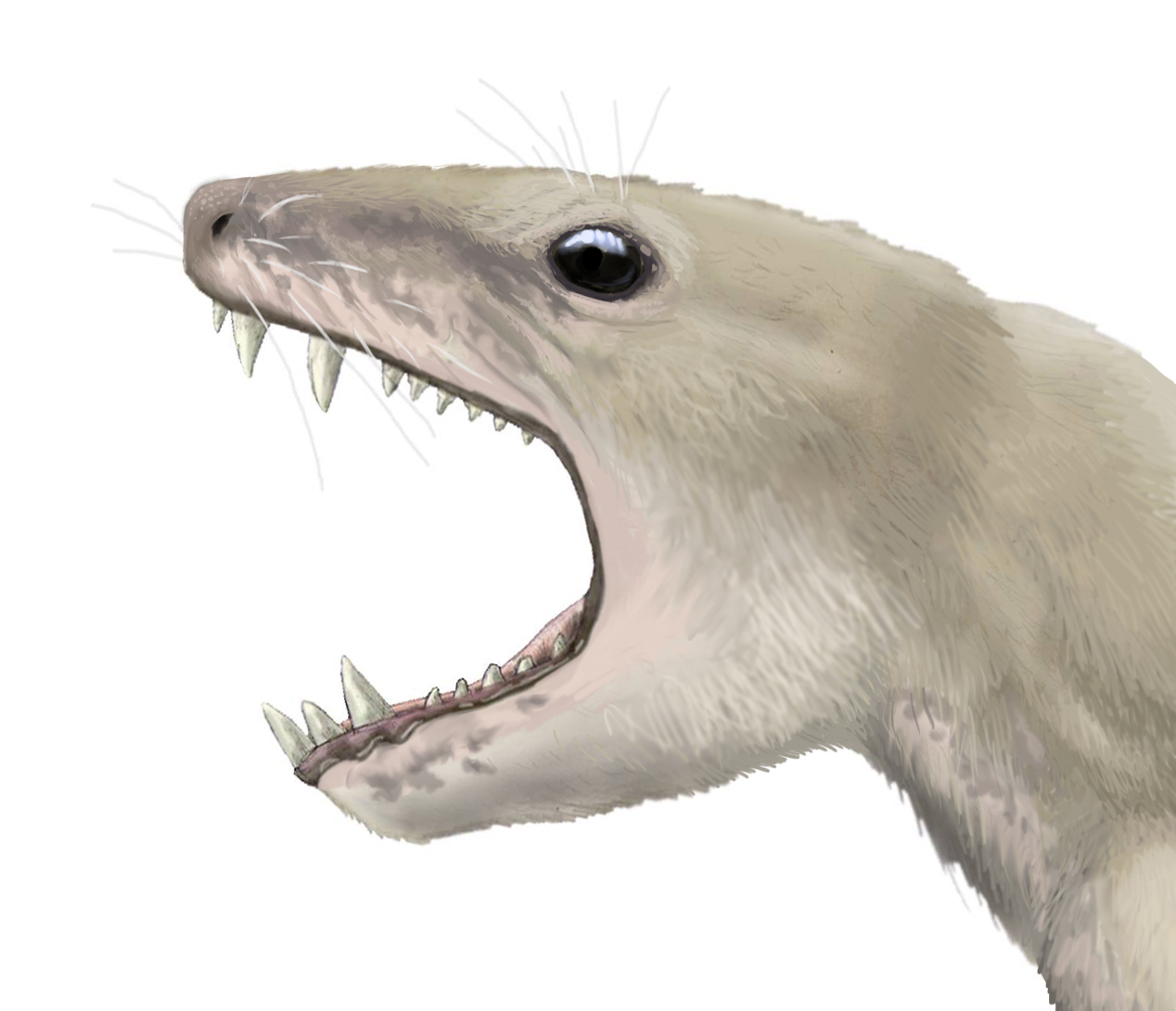 Life restoration of Pachygenelus monus.